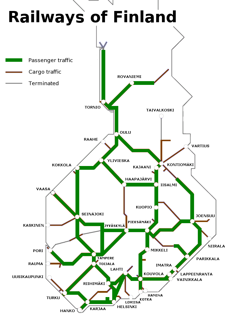 Finnish railroad network in 2006. Green line is a railroad for passenger and cargo traffic. Brown line is a railroad for cargo traffic only. Gray line is an abandoned railroad.